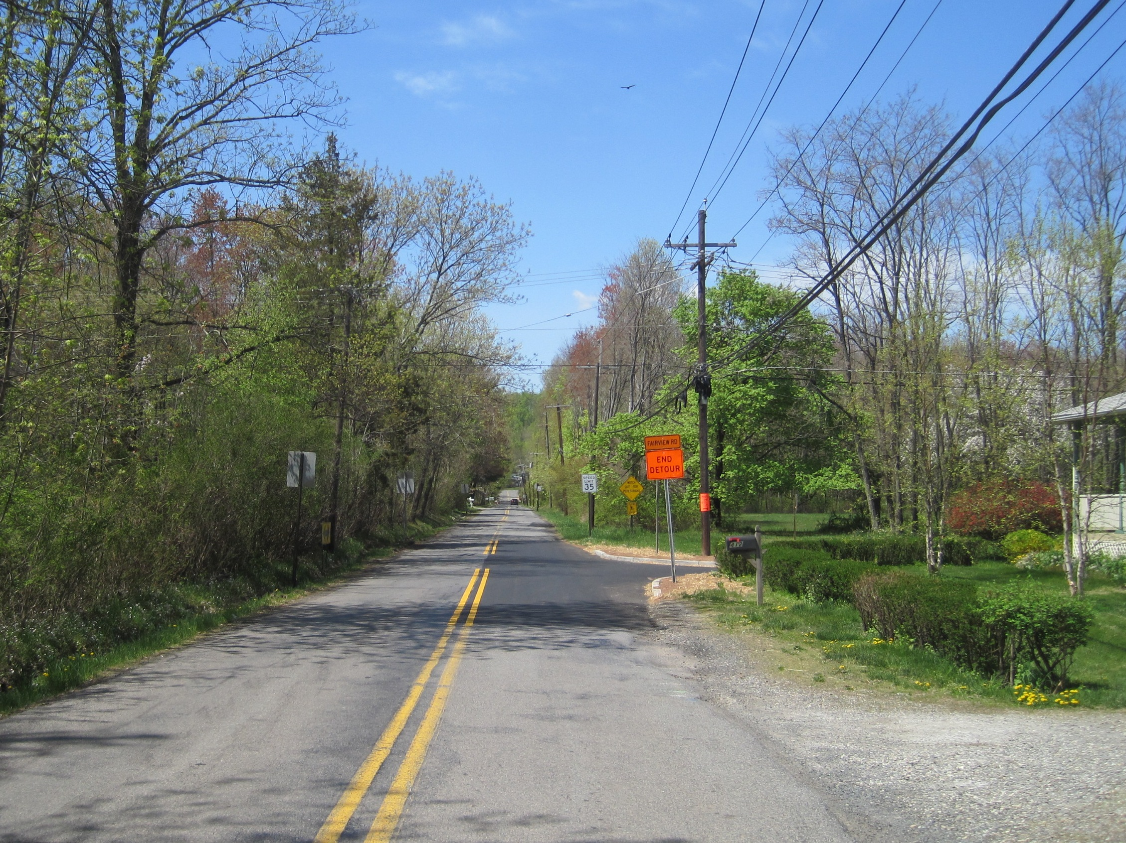 Photo showing the center of Skillman, New Jersey, a census designated place in Montgomery Township. Photo taken at the intersection of Camp Meeting Avenue and Fairview Road.